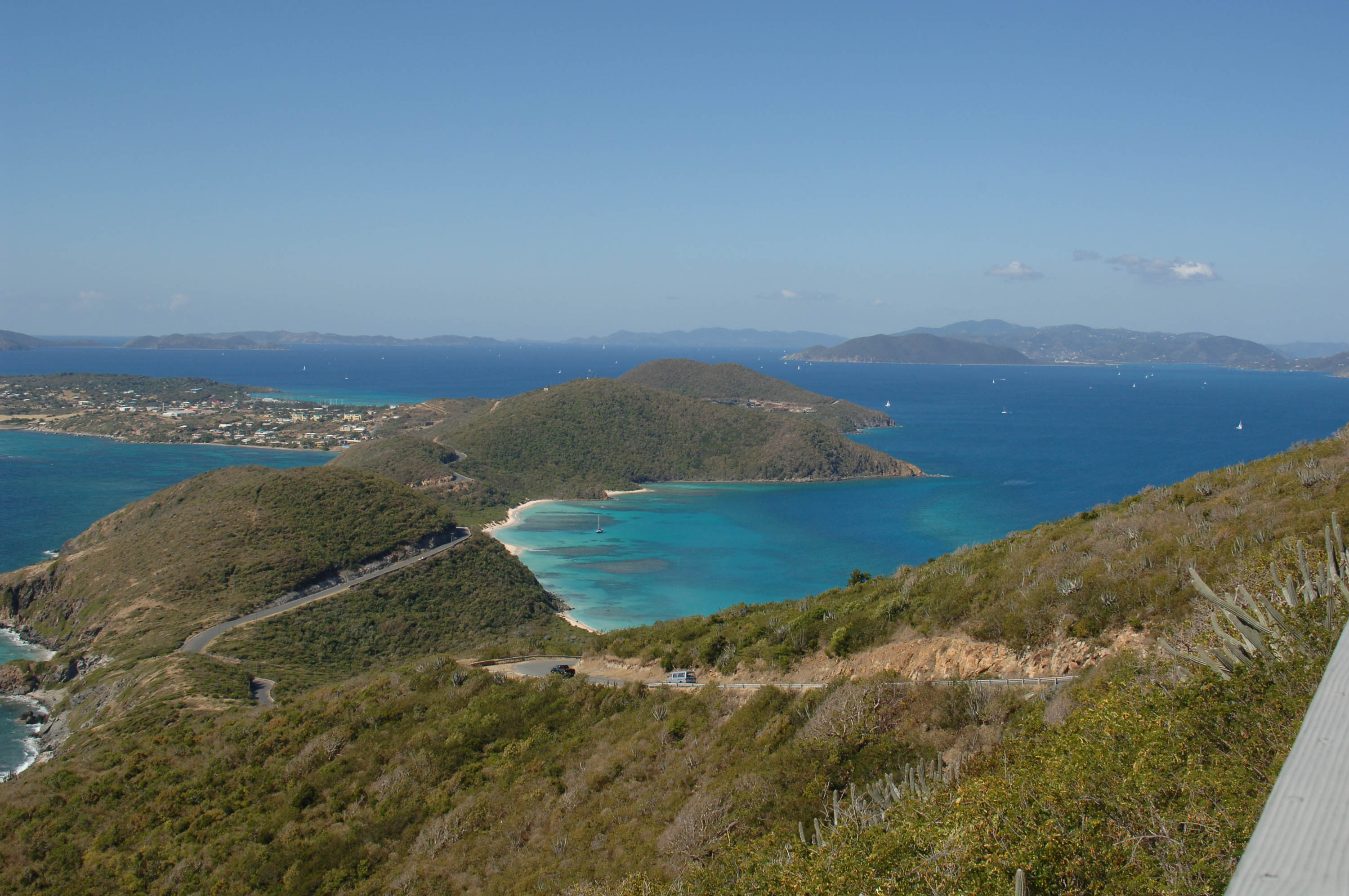 GORDA PEAK NATIONAL PARK; EMCOMPASSES THE HIGHEST POINT ON VIRGIN GORDA AT 1370 FEET. THIS PICTURE SHOWS LITTLE BAY, BIRAS CREEK AND THE DISTANT PART OF VIRGIN GORDA